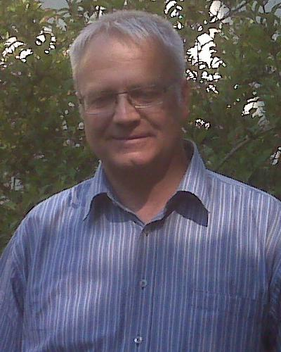 Uwe Bekemann, German Correspondence Chess Meeting 2010 at Bad Nenndorf, Photographer Gerhard Hund